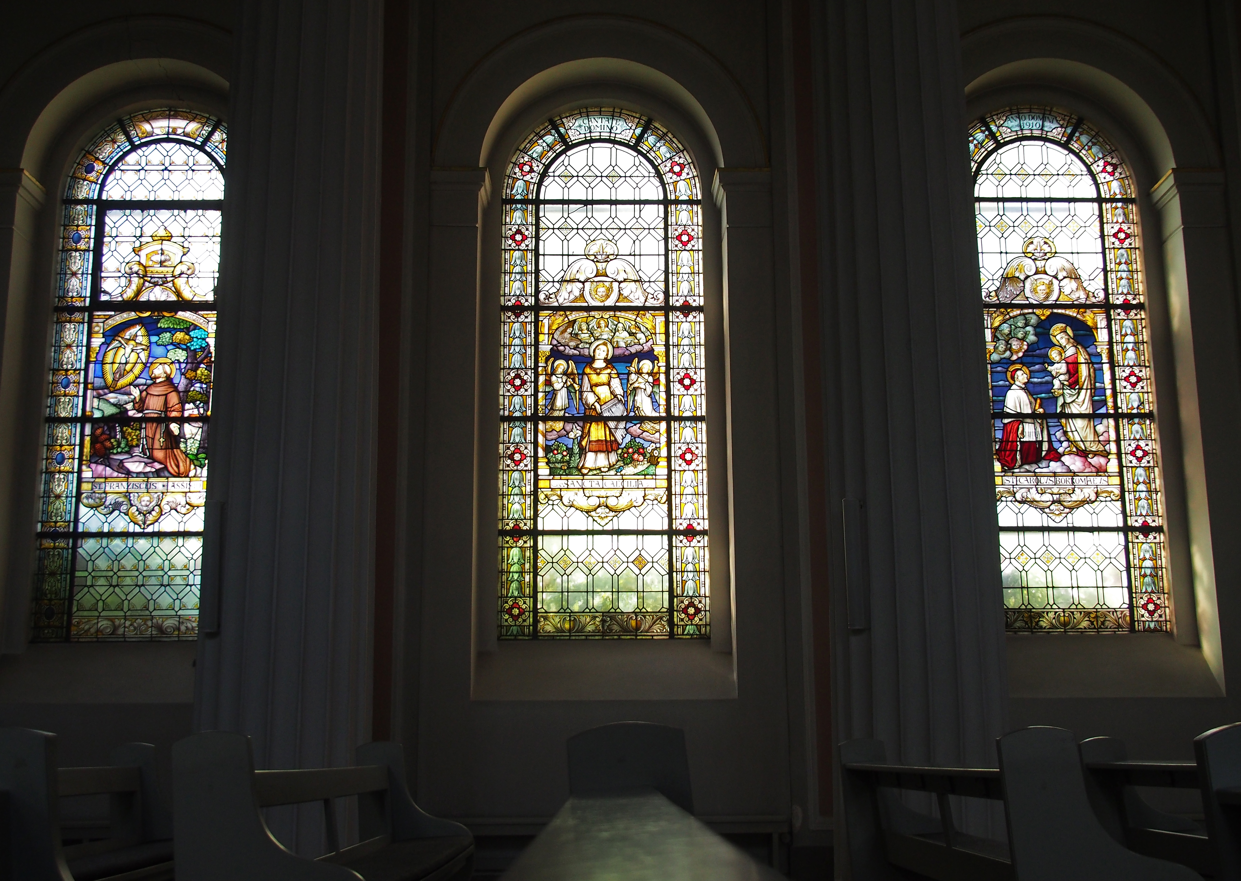 Stained glass windows Church St.Ludwig Celle, Lower Saxony, Germany